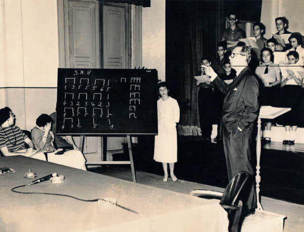 Gazzi de Sá ministrando aula no Conservatório Nacional de Canto Orfeônico.